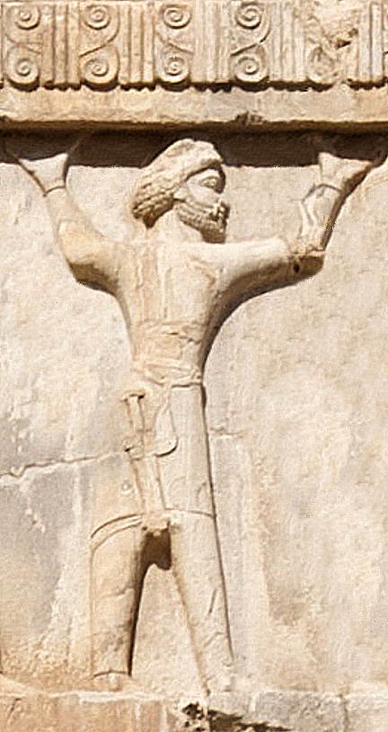 Xerxes I tomb Cappadocian soldier circa 470 BCE cleaned up